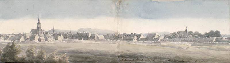 North View of Montreal showing the old fortifications, circa 1793. By George Elliot. Taken from Joseph Frobisher's Country Seat, Beaver Hall. Credit: Library and Archives Canada, Acc. No. 1989-470-5R